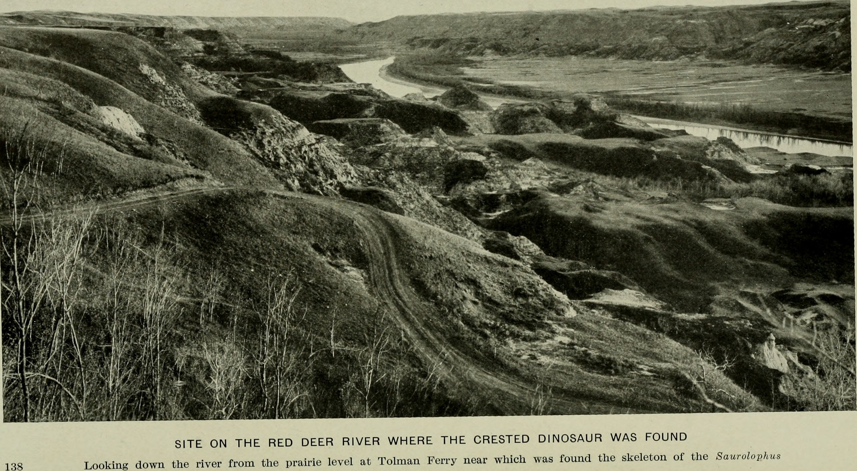 Title: The American Museum journal Year: c1900-(1918) (c190s) Authors: American Museum of Natural History Subjects: Natural history Publisher: New York : American Museum of Natural History Text Appearing Before Image: ' Text Appearing After Image: '